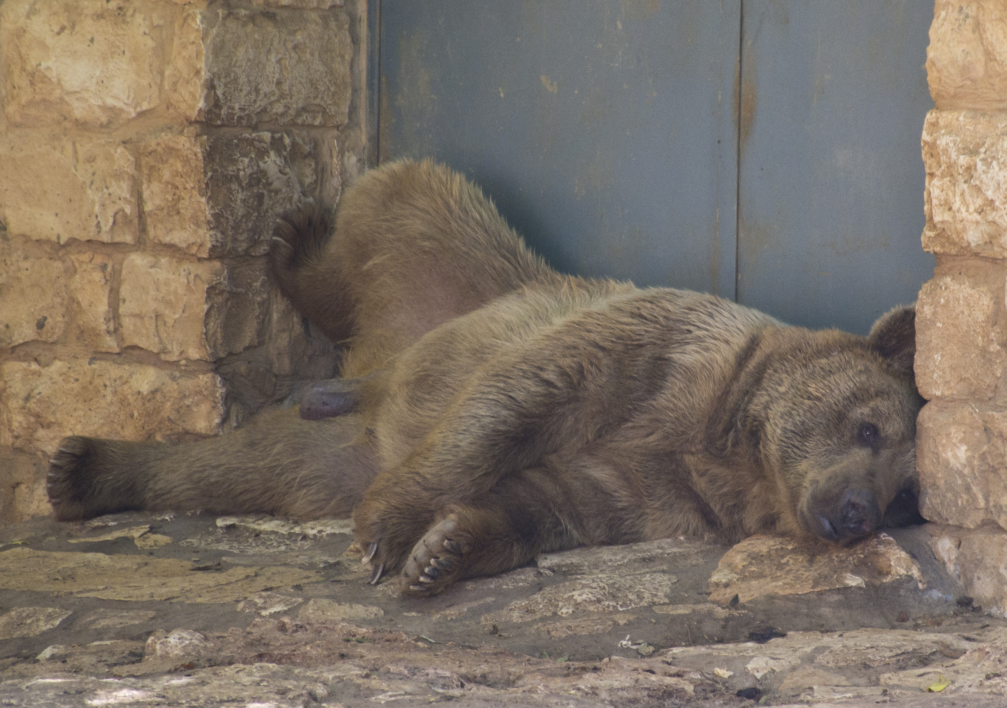 Haifa Educational Zoo, Haifa, Israel